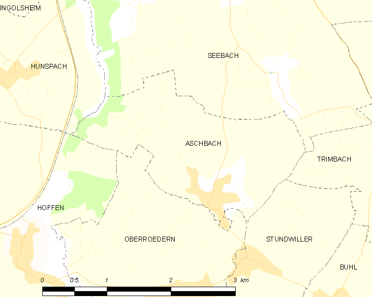 Map of French municipality